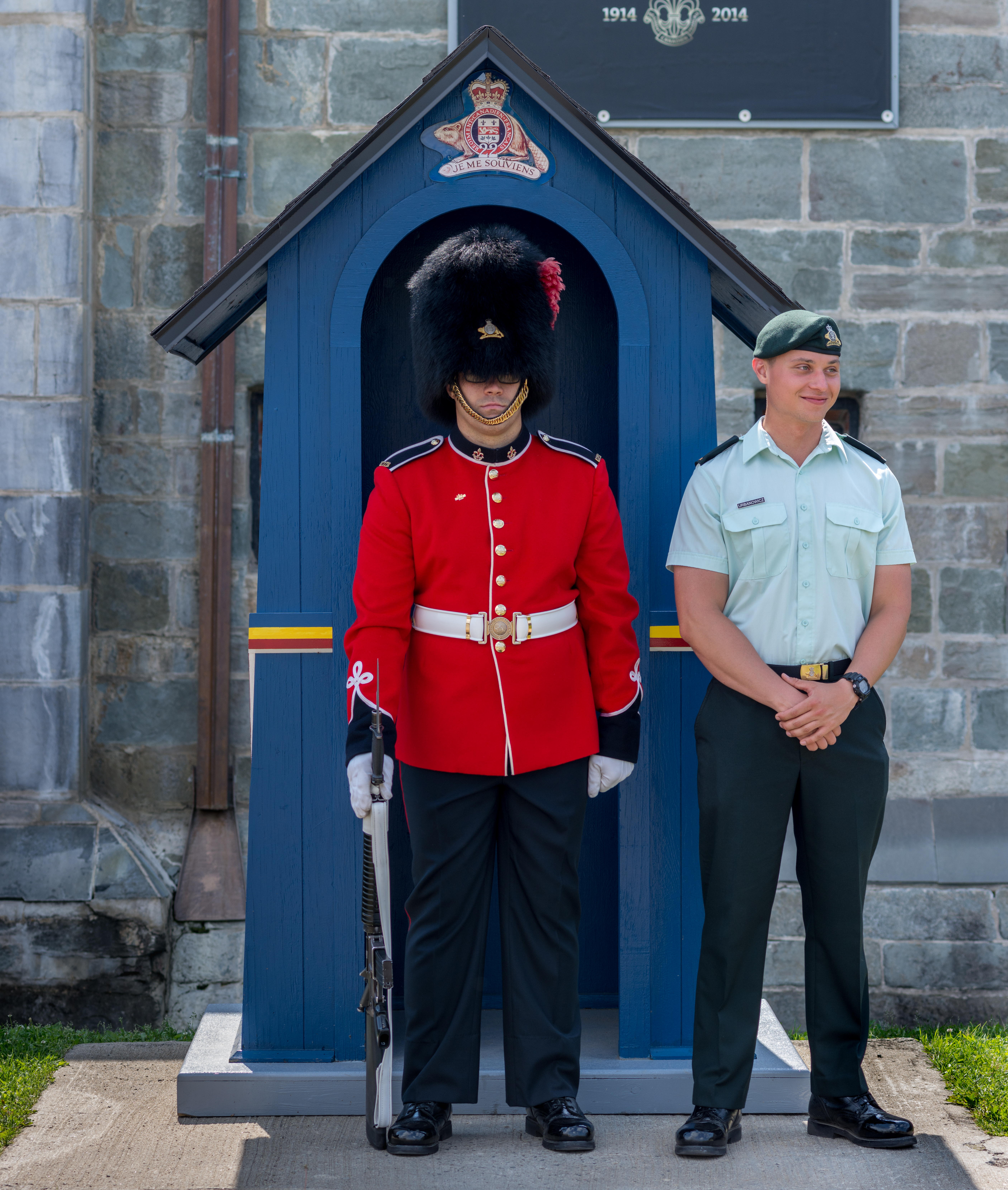 Changing the Guard ceremony in Québec during the summer 2018